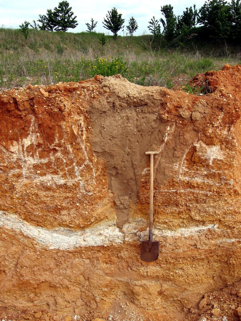 Ice wedge pseudomorph in a Miocene gravel deposit, filled with loess, near Lorenziberg, Rhine-Hesse, Germany.